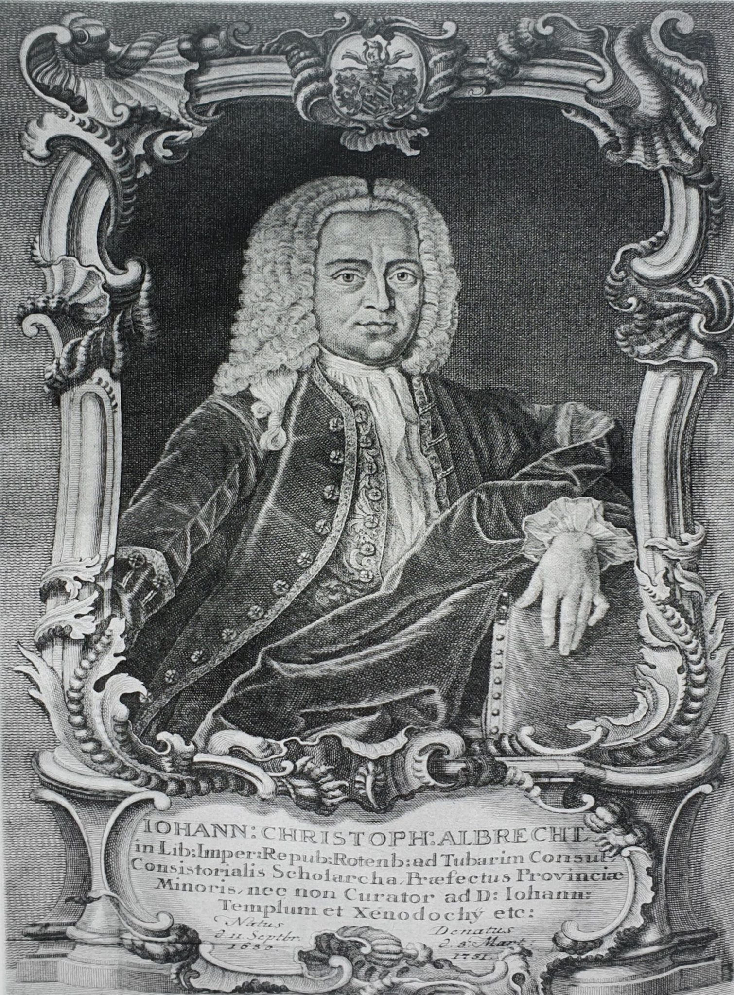 Johann Christoph Albrecht 1680-1751